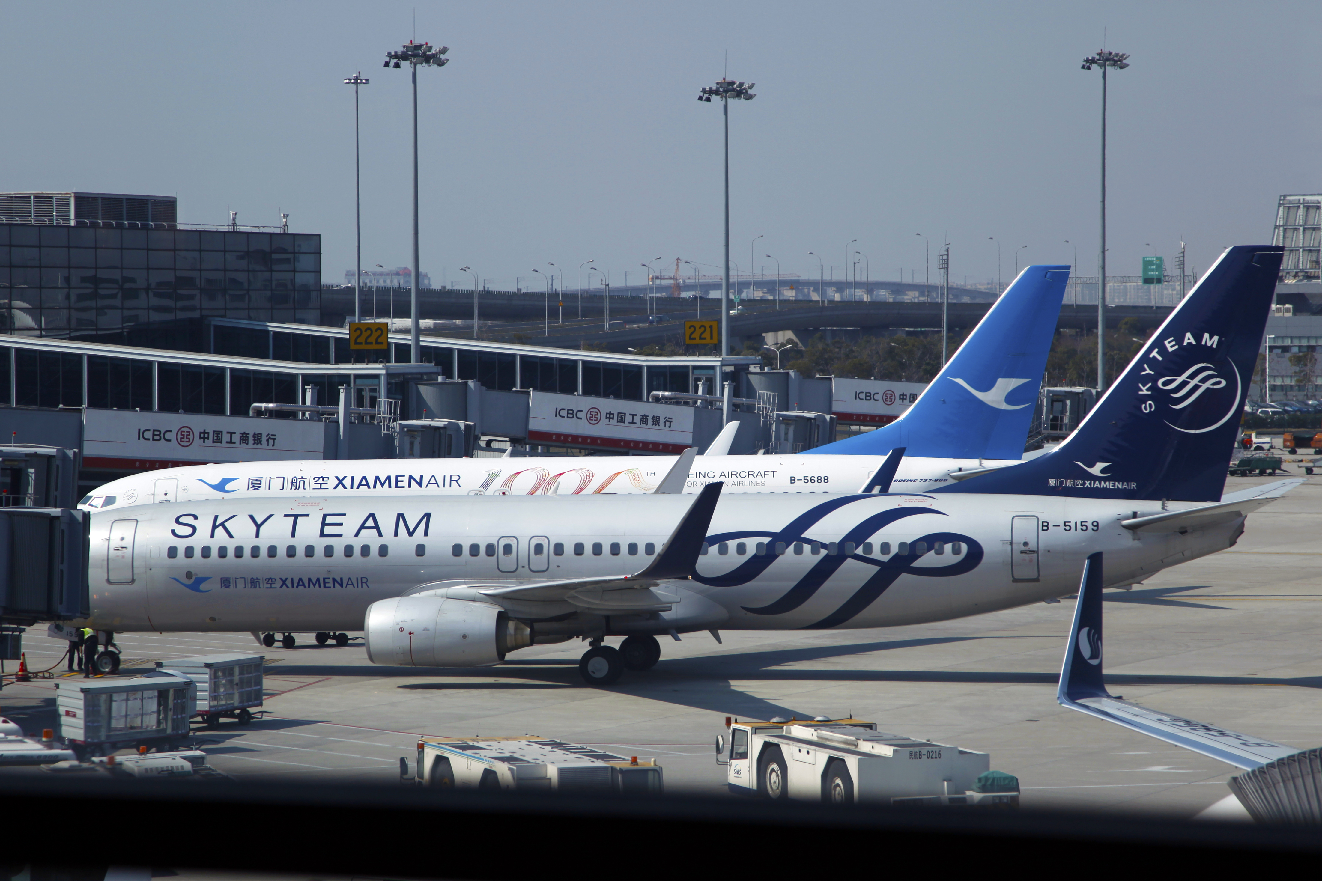 B-5159 & B-5688 | Xiamen Airlines | Boeing 737-85C(WL) | SkyTeam Livery & 100th Boeing Aircraft For Xiamen Airlines Livery | Shanghai Hongqiao International Airport [SHA]